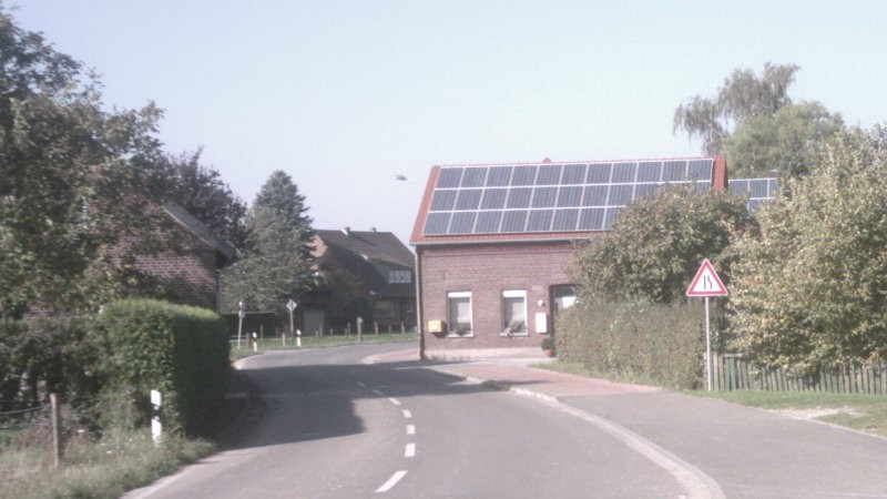 Kehn, Tönisvorst, Germany